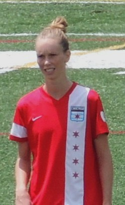 2013-07-04; Michelle Wenino in Chicago Red Stars vs Western New York Flash